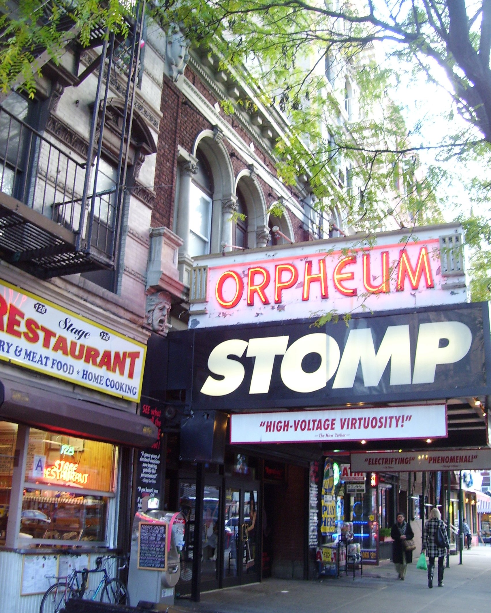 The Orpheum Theatre at 126 Second Avenue between St. Marks Place and East 7th Street in the East Village neighborhood of lower Manhattan, New York City. Stomp opened here in 1994, and had done over 5,000 performances since. The theatre was the Players Theatre, a Yiddish playhouse at the time when Second Avenue was referred to as the "Jewish Rialto" because of the many Yiddish theatres along it, but by the 1920s it was showing films. It converted back to dramatic productions in 1958. Before it was a theatre, Elizabeth Blackwell established the Women's medical College at this address. The site may have been a concert garden as early as the 1880s. {Source: [1],[2])